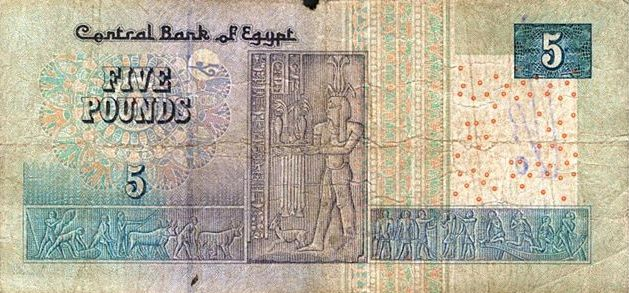 Five egiptian pounds